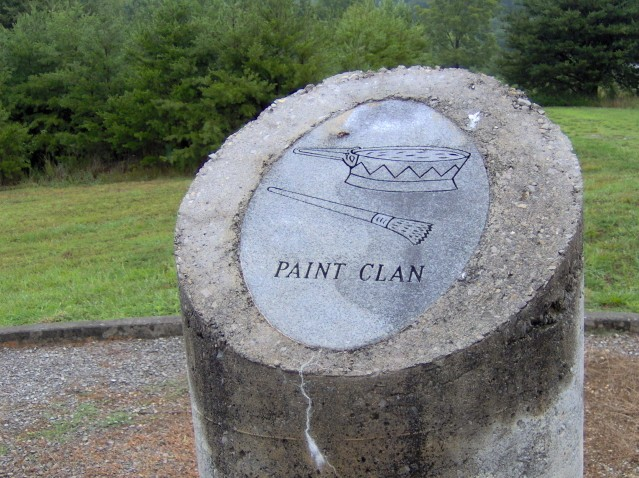 The Paint Clan pillar at the Chota Monument in Monroe County, Tennessee, in the southeastern United States. This pillar is one of eight pillars representing the seven Cherokee clans and the Cherokee Nation. The monument rests directly above Chota's ancient townhouse.